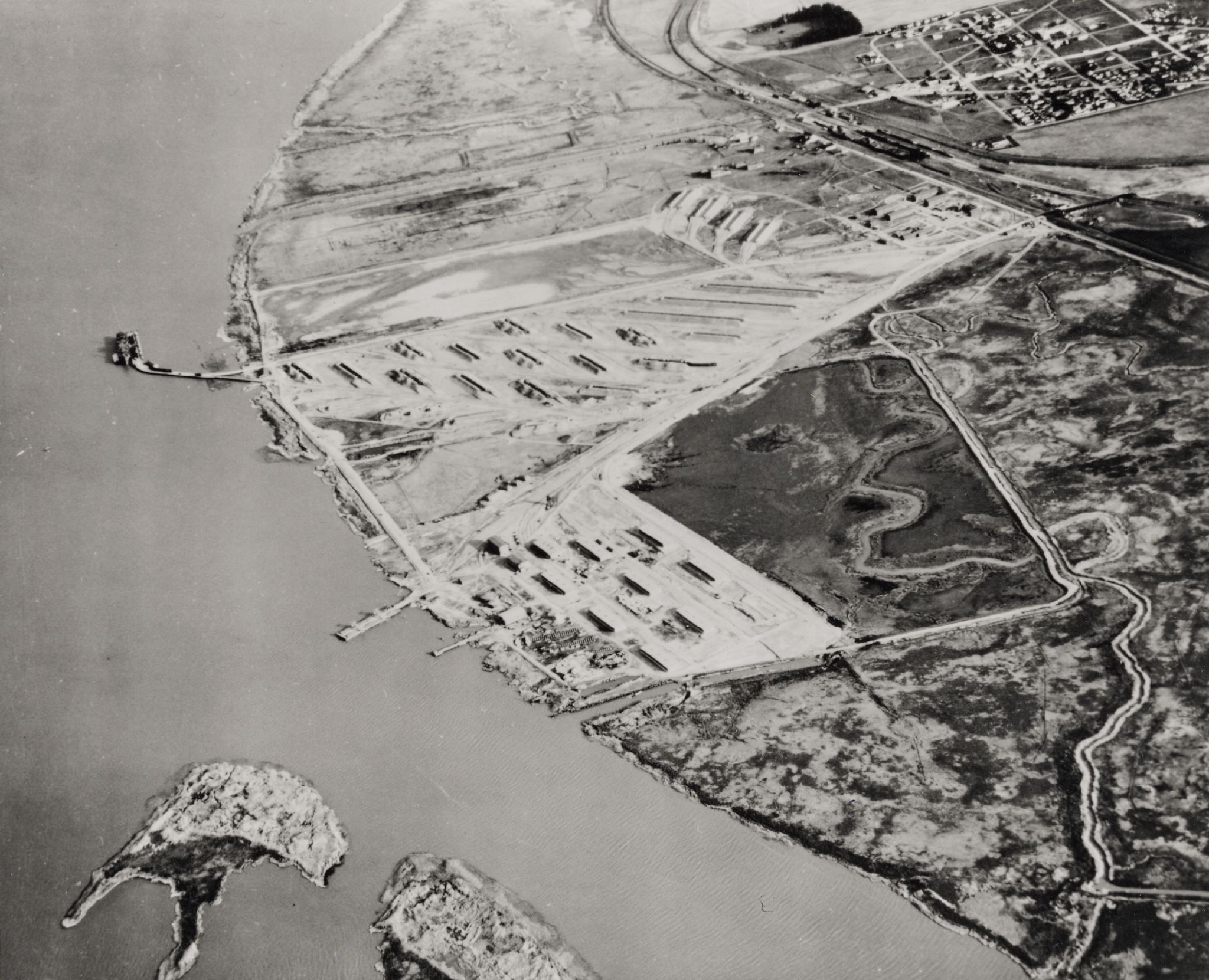 Aerial photo of Port Chicago Naval Magazine taken between December 1942 when the first ship was loaded and July 1944 when the pier was destroyed by a catastrophic ammunition detonation.